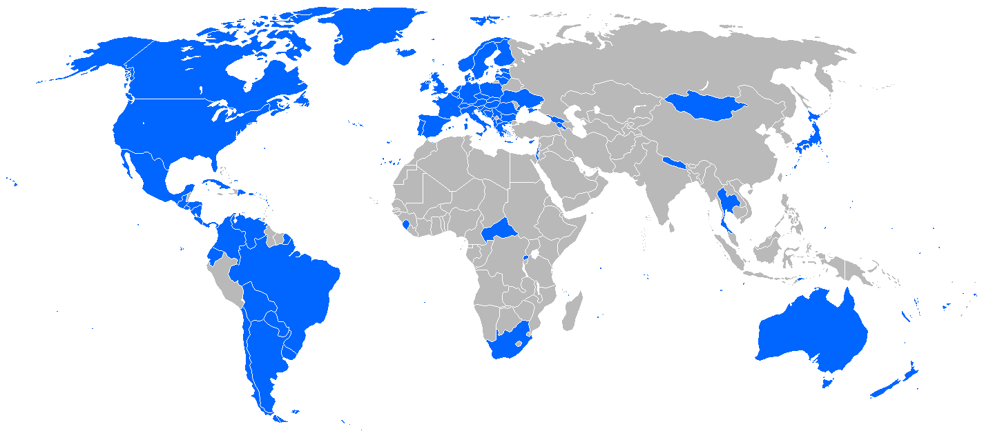 Supporters of the UNHRC joint statement on ending acts of violence and related human rights violations based on sexual orientation and gender identity; source: [1]. The map shows the 85 supporters as of 23 March 2011.